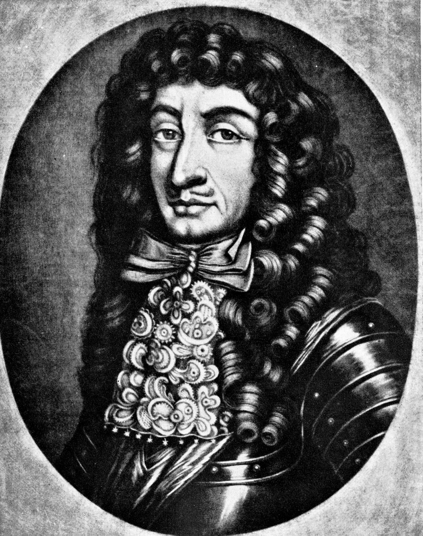 Ernst Rüdiger Graf von Starhemberg (1638-1701); 34:24 cm